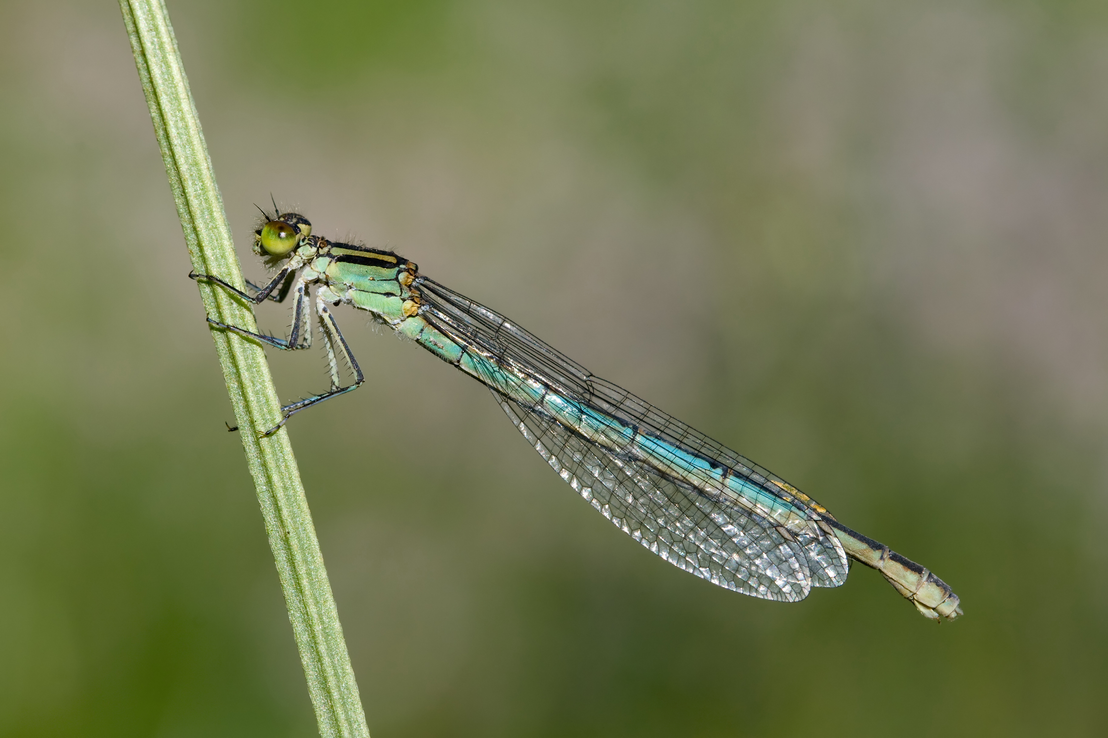 A female of the Goblet-marked Damselfly (Erythromma lindenii) at the Winklerbergsee, a lake between Breisach and Ihringen, southwestern Baden-Württemberg, Germany.